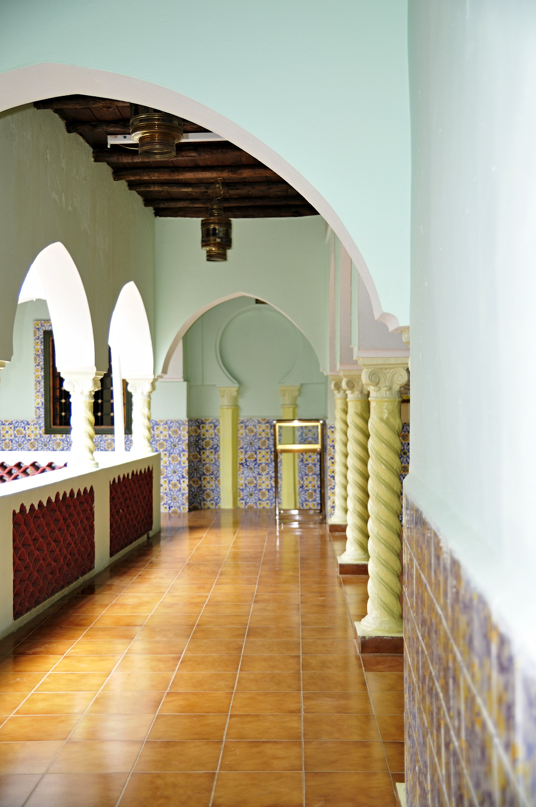 Remains of Emir Abdelkader-Miliana